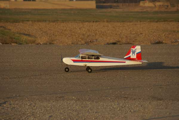 Model aircraft on test